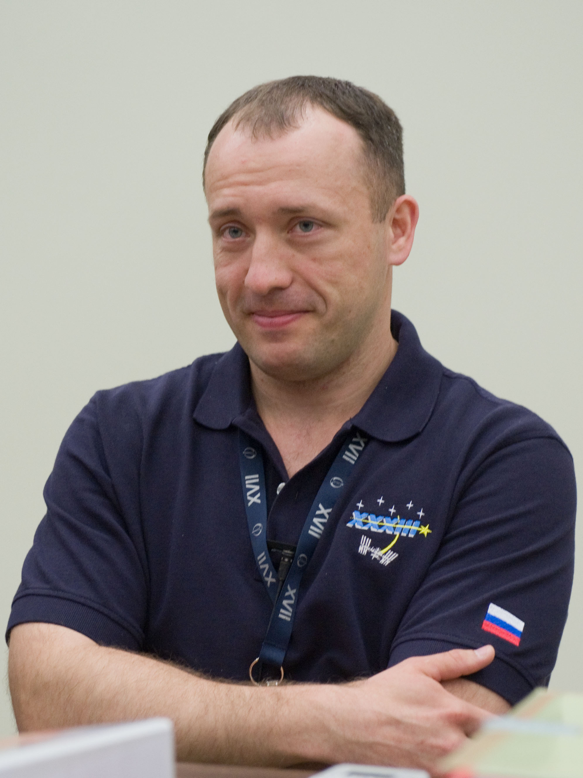 Russian cosmonaut Alexander Misurkin, Expedition 35/36 flight engineer, is pictured during an emergency scenario training session in the Space Vehicle Mock-up Facility at NASA's Johnson Space Center.